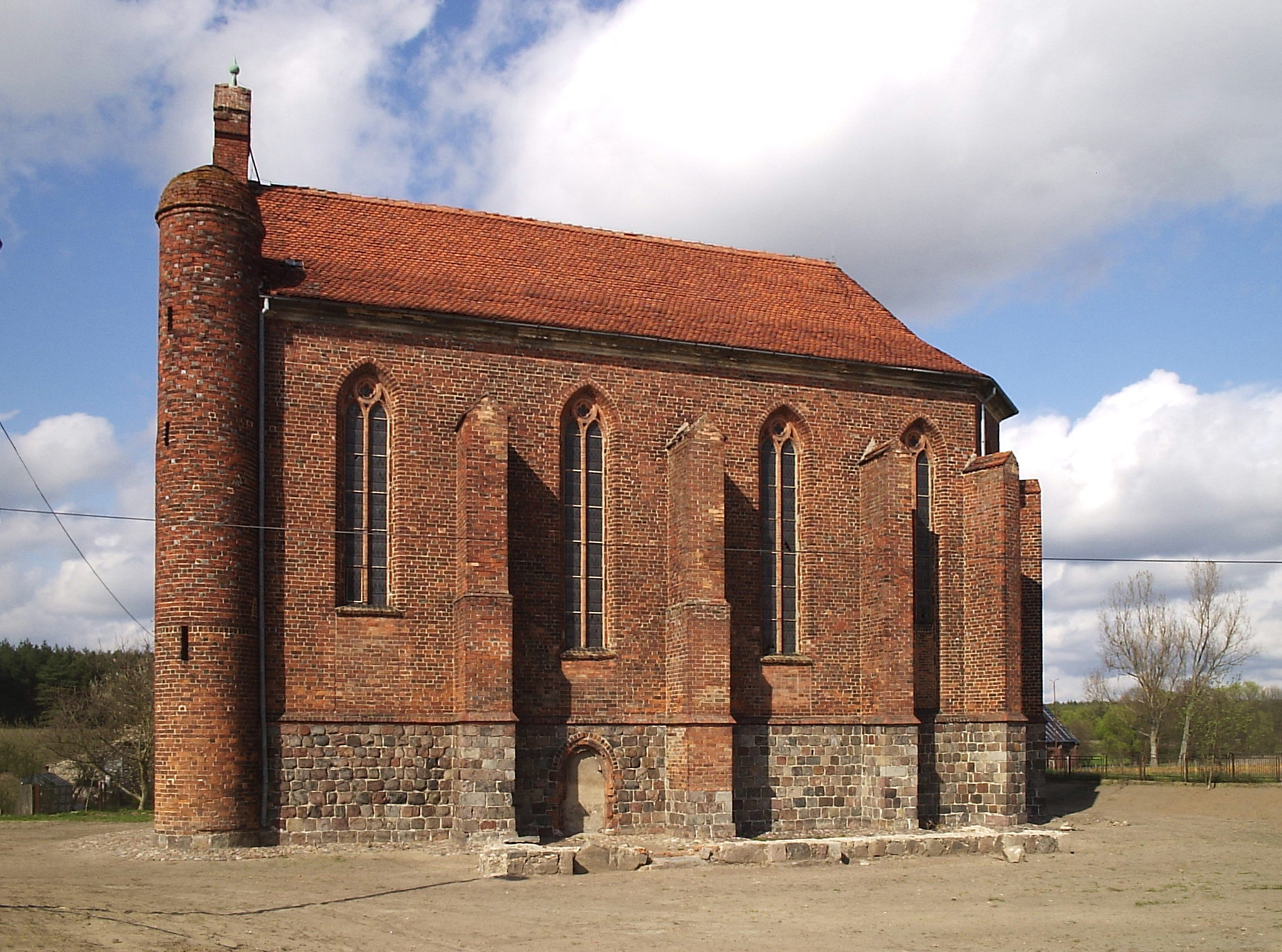 Church Knights Templar in Chwarszczany (Quartschen), Poland